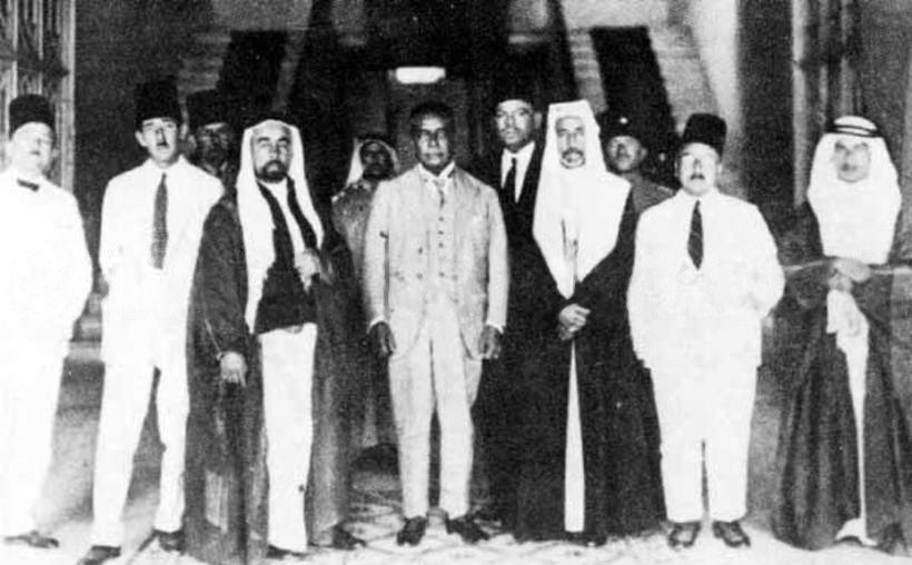 Syrian nationalists paying their condolences for the death of Sharif Hussein in 1931. From left to right: Afif al-Sulh, Fakhri al-Barudi, King Abdullah of Jordan, an Indian guest, King Ali of the Hijaz, Lutfi al-Haffar, and Crown Prince Talal of Jordan (later king)